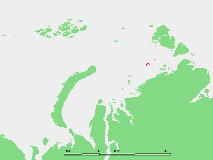 Location of Kirov Islands, Russia